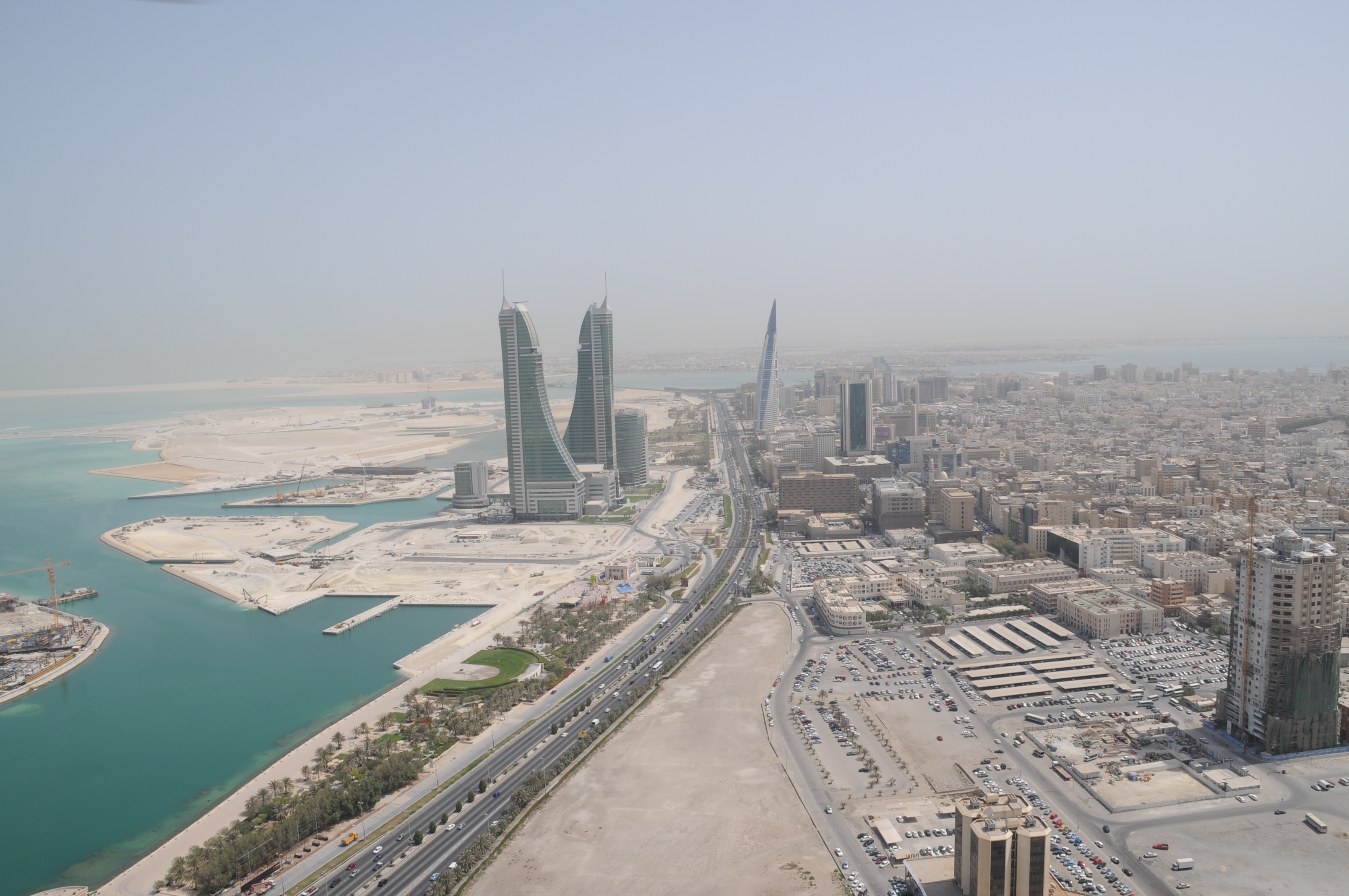 MOW_RD3